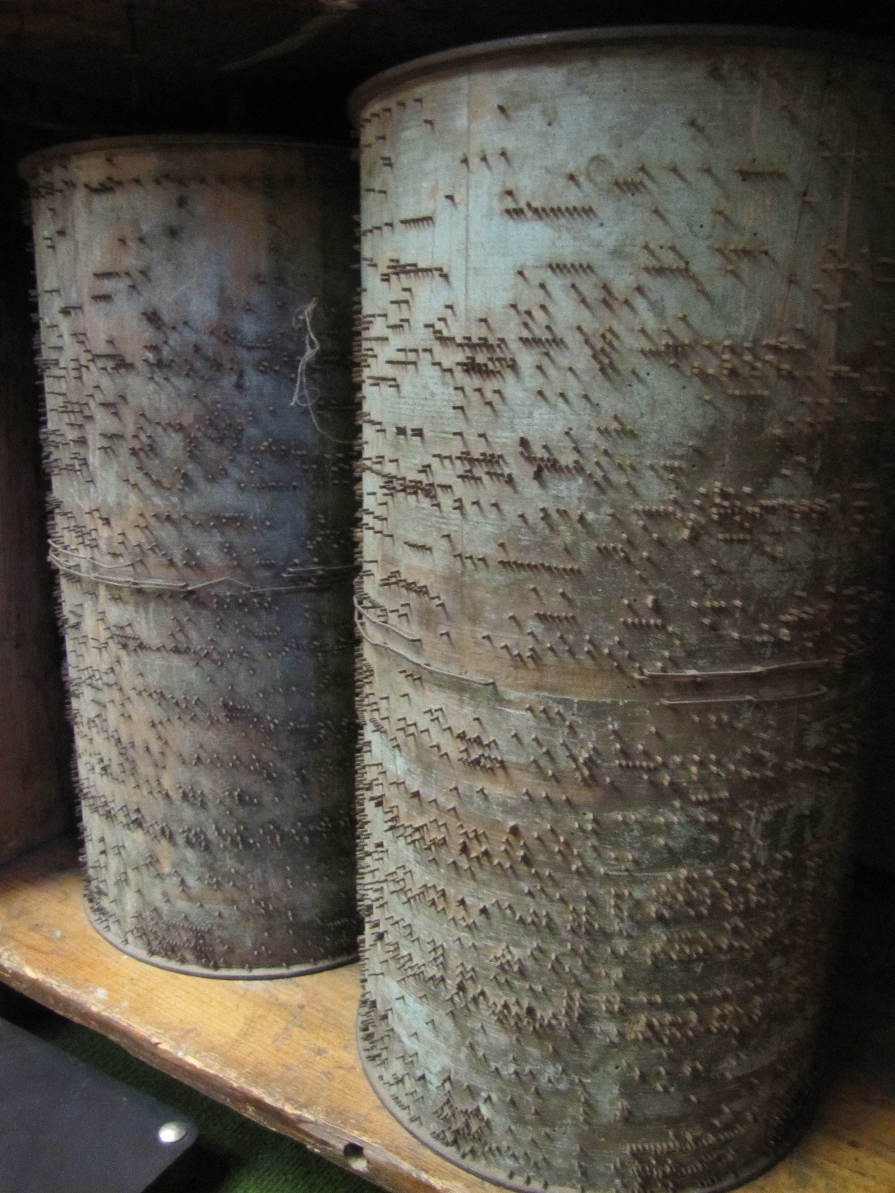 Photo taken in Warsaw Museum of Technology